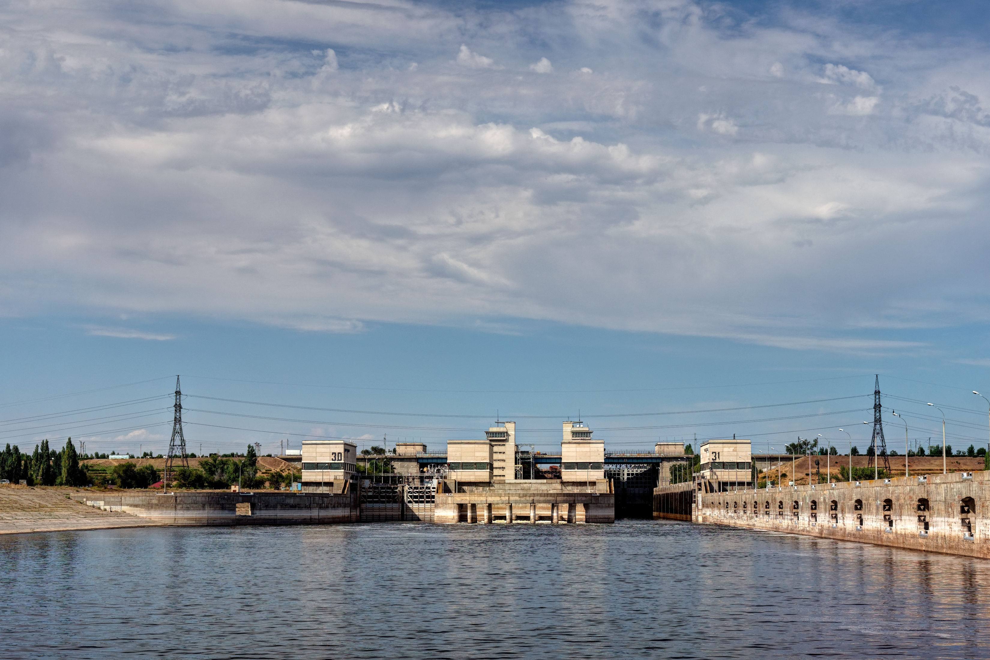 Volga Hydroelectric Station, lock